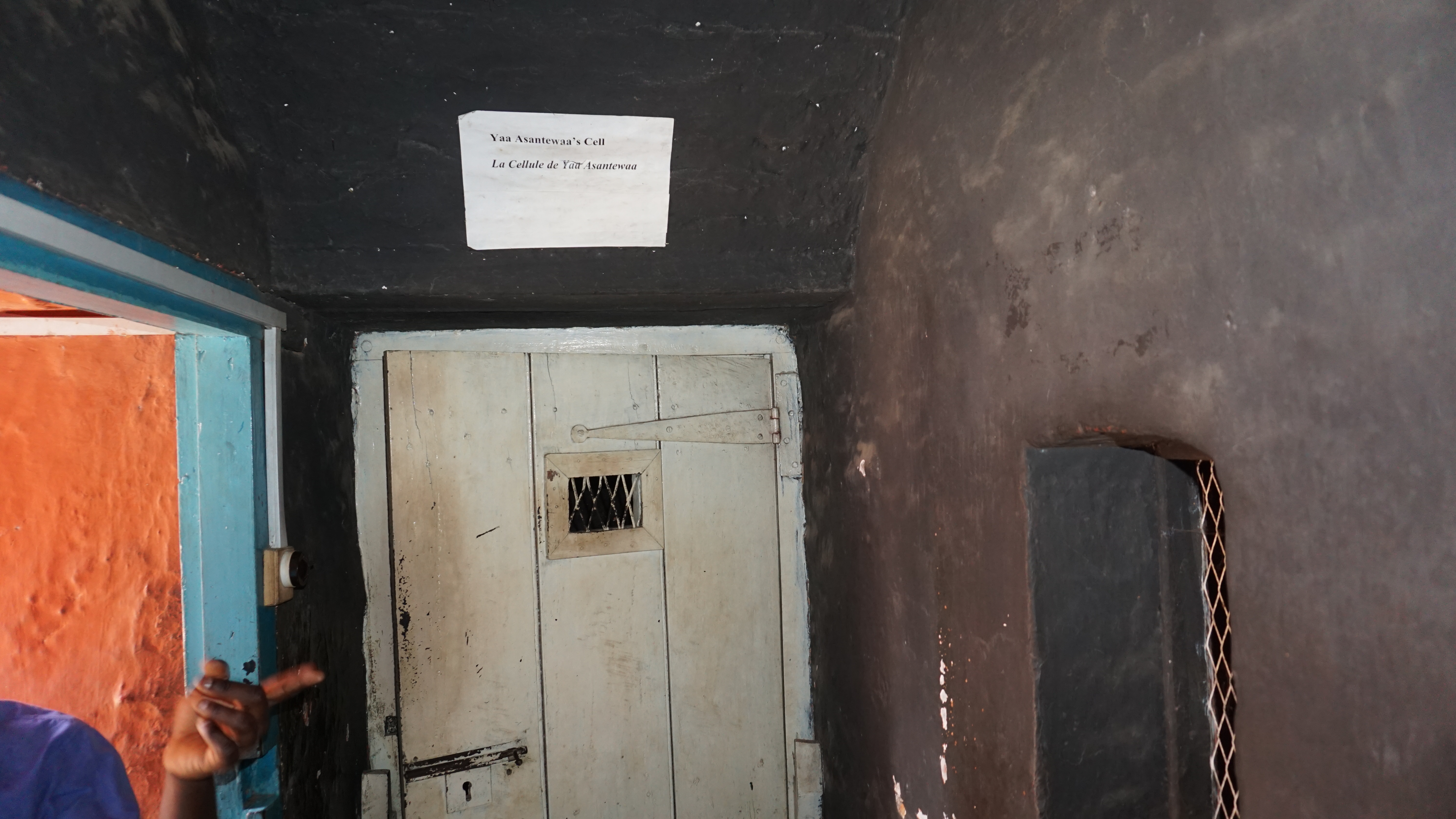 The cell Yaa Asantewaa was kept.